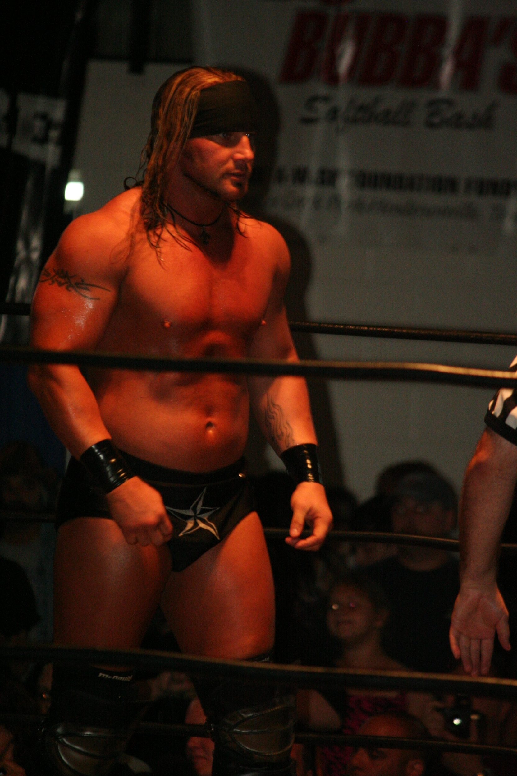 Chase Stevens at a Crossfire Pro Wrestling show in May 2012, held in Nashville, TN.